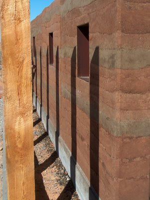 Photo by Tristan Shephard